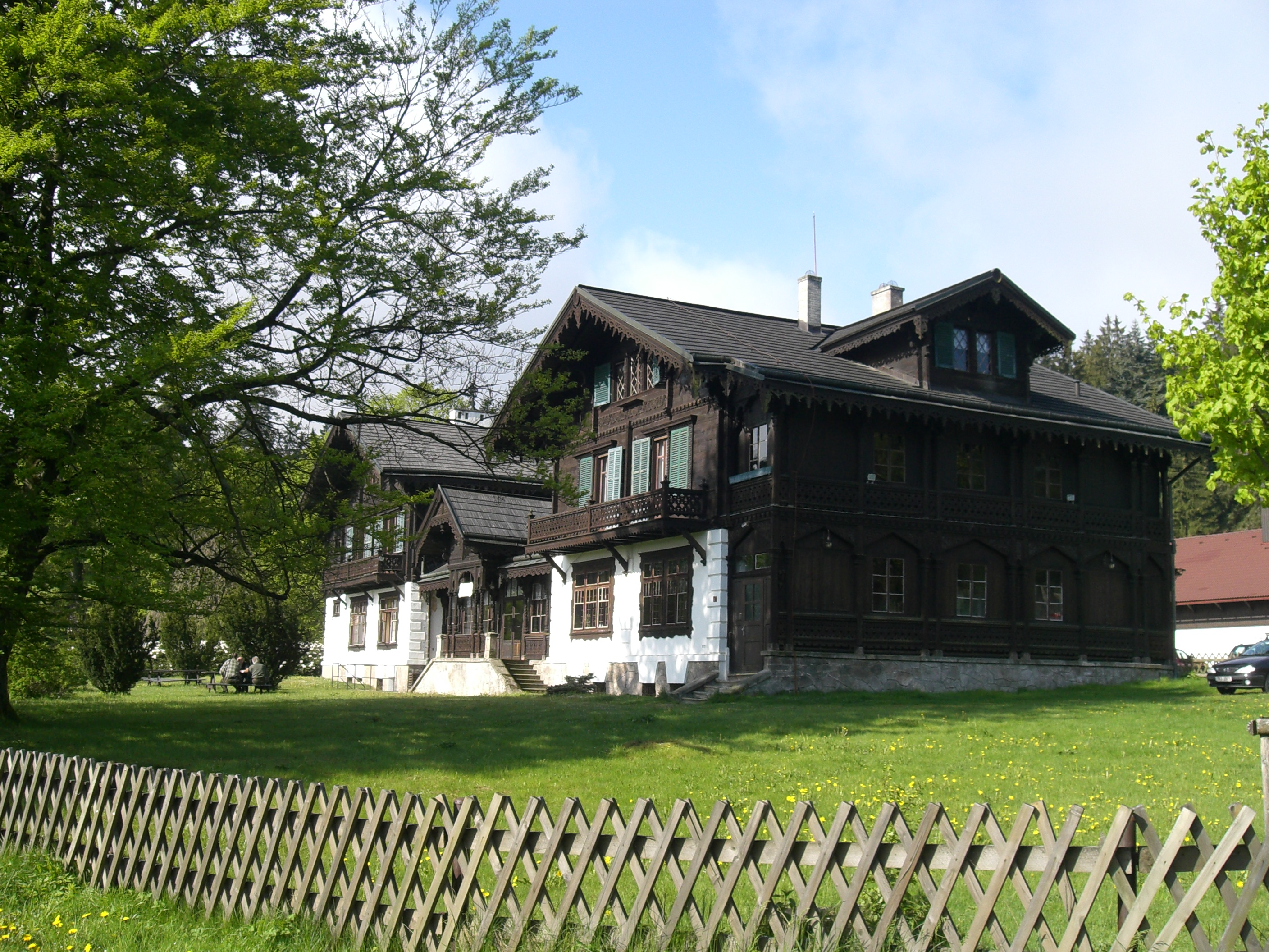 Kladská castle near Mariánské Lázně, Czech Republic. Around 50°1'34.92"N,12°40'30.55"E